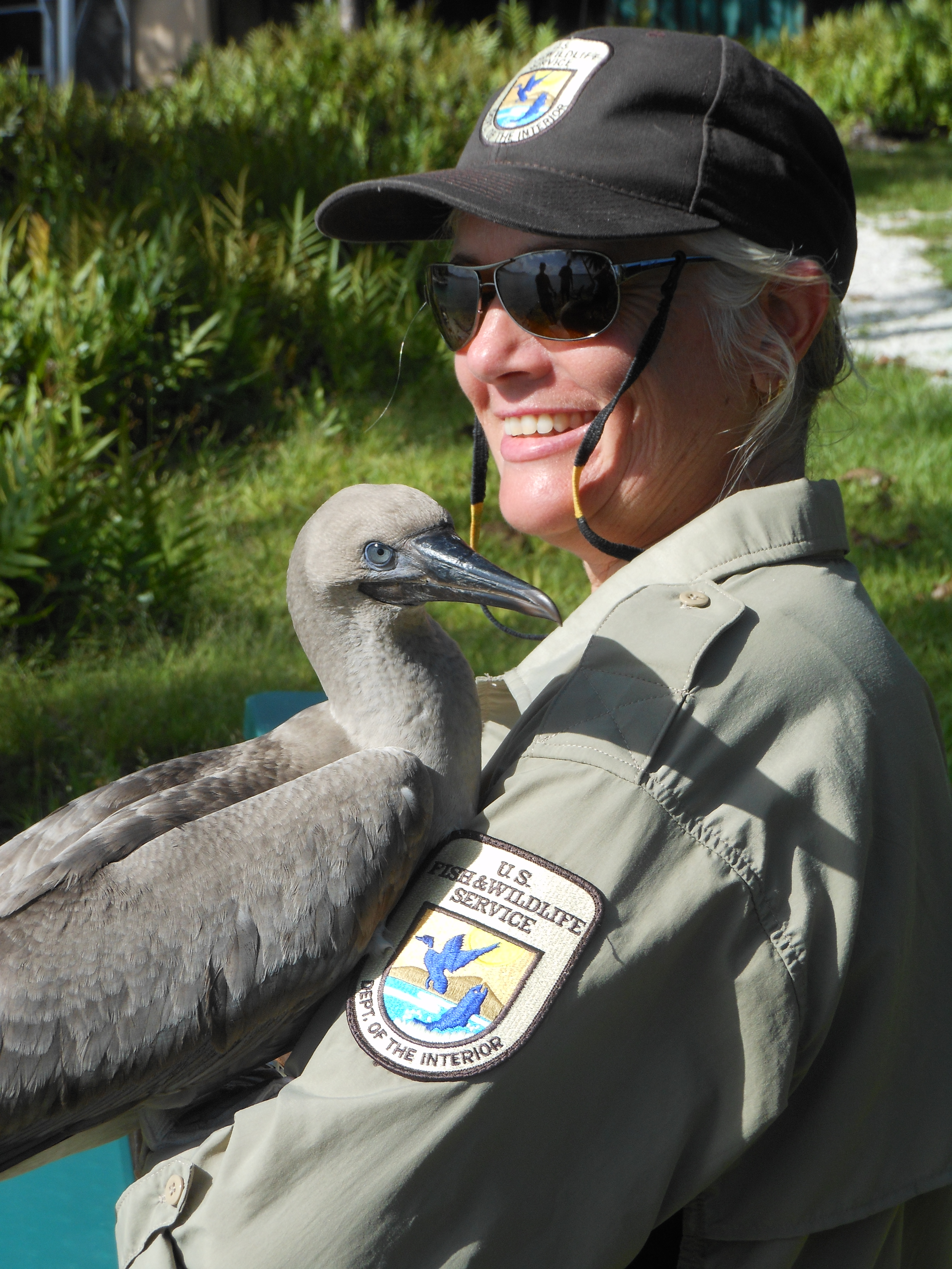 Susan White, Monuments Superintendent and Project Leader for the Pacific Reefs National Wildlife Refuge and Monuments Complex, holding a juvenile red footed booby. Photo credit: USFWS